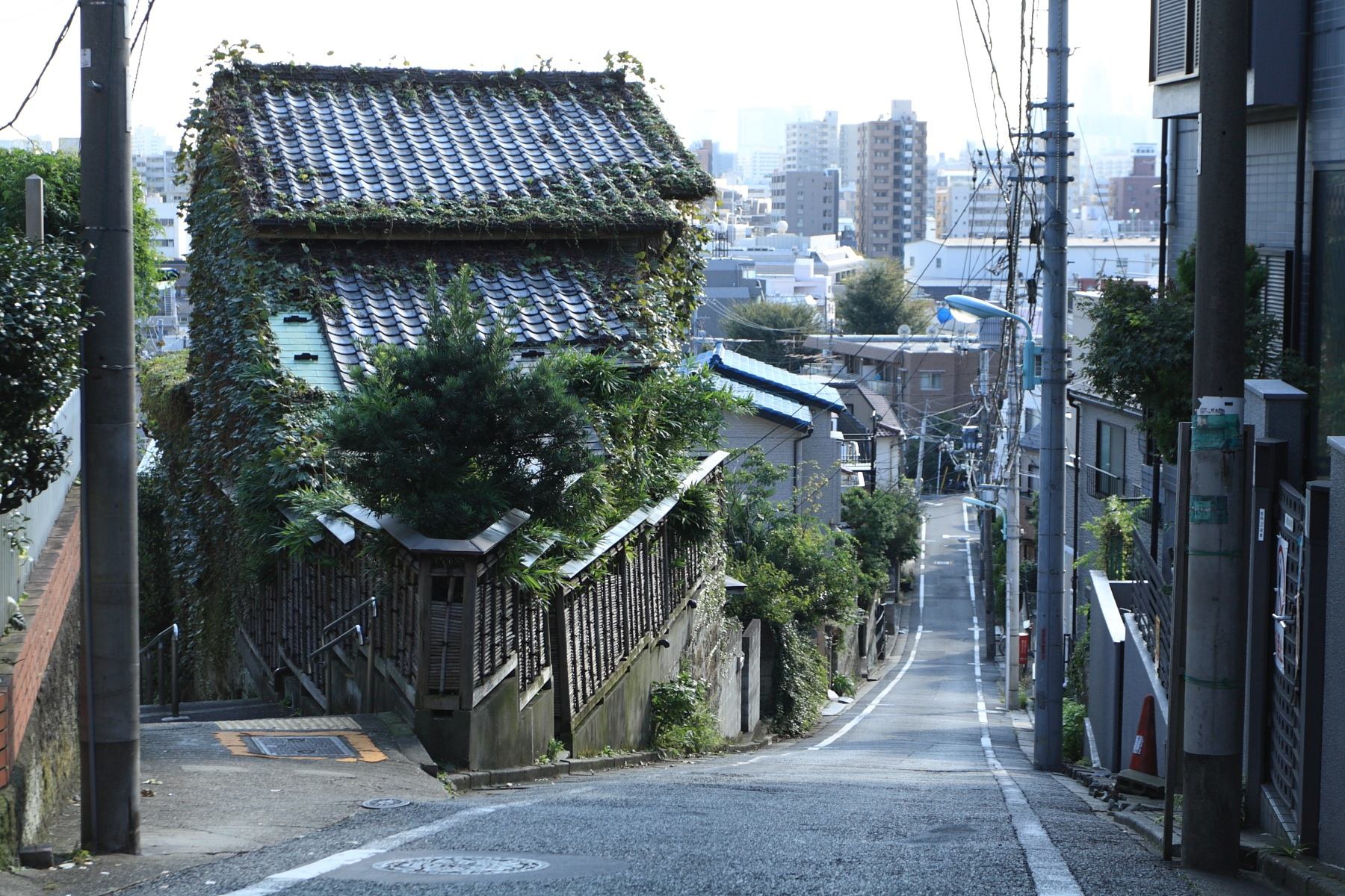 Hinashi-saka(left), Fujimi-saka(right)